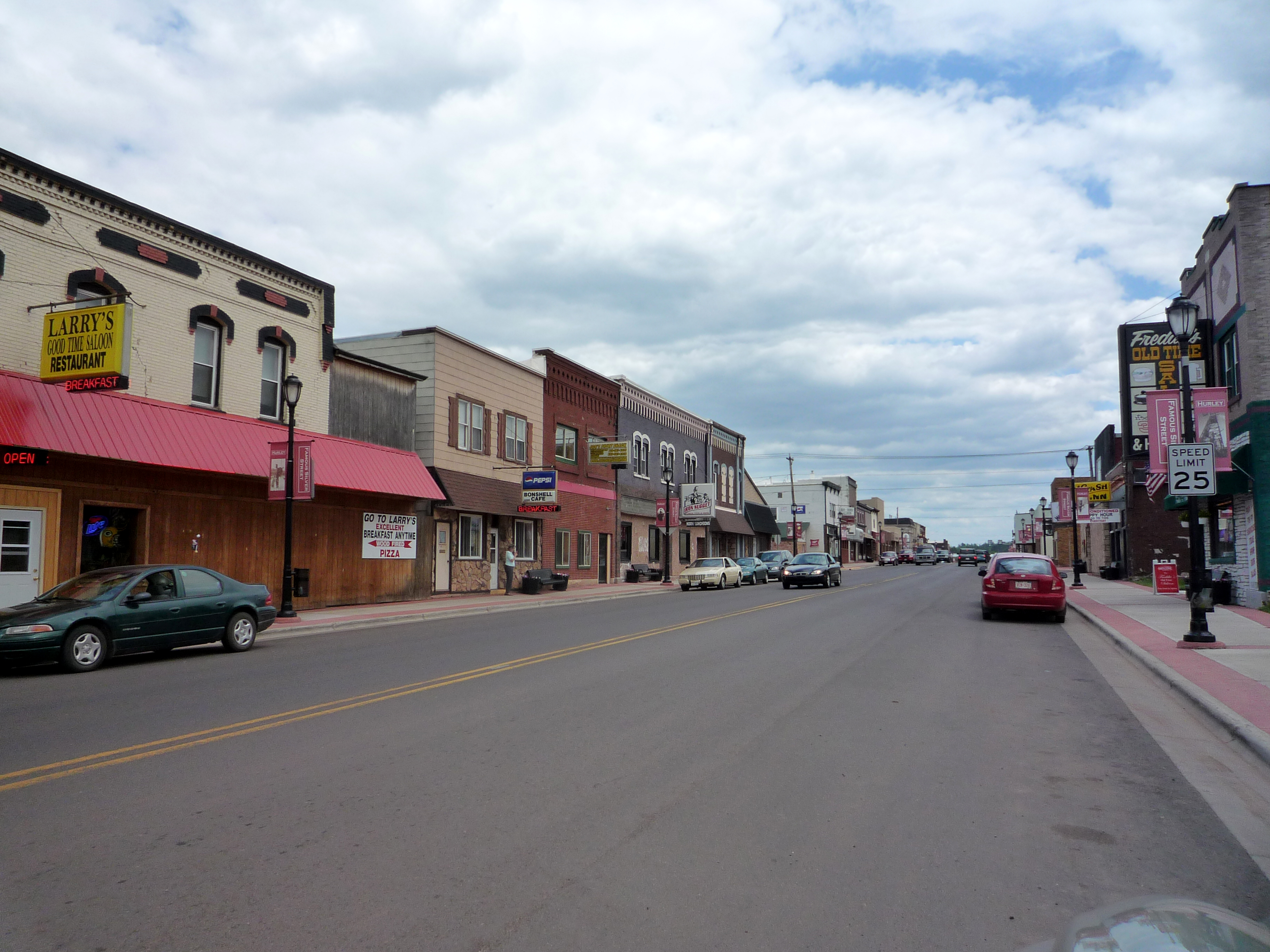 Silver Street, downtown Hurley, Wisconsin, USA.